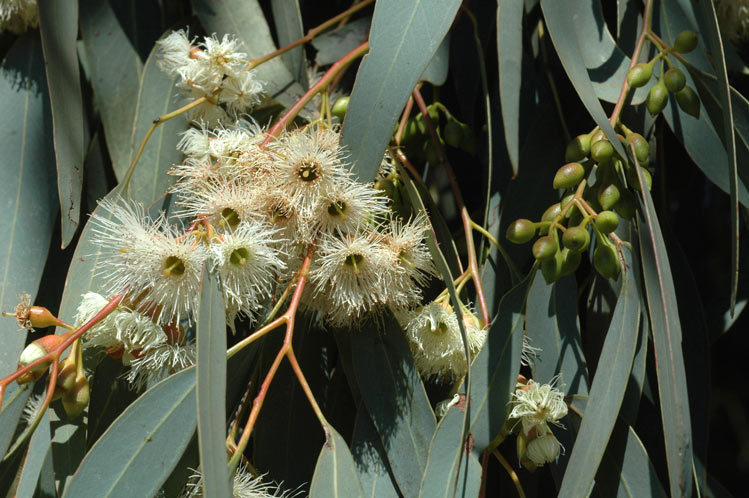 Flower buds and flowers (cream form) of Eucalyptus sideroxylon in the Stackpoole State Forest, north-east of Goolgowi, New South Wales